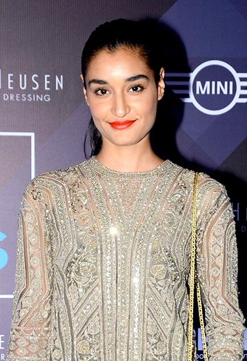 at GQ Fashion Nights